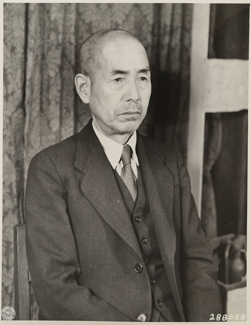 Shunroku Hata during the trial for war crimes at International Military Tribunal for the Far East